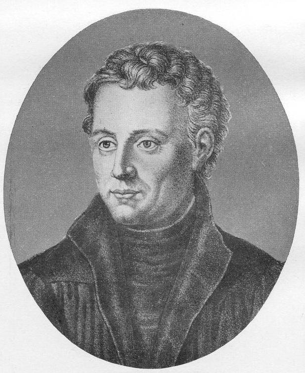 Johann Reuchlin. Anti-obscurantist: Johann Reuchlin (1455–1522).